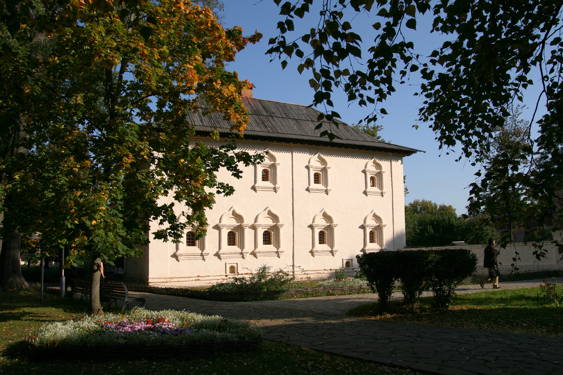 Monk Cells of Spaso-Yevfimiyev Monastery, Suzdal, XVII c